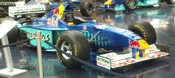 Sauber C16 in exposition